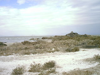 Shoreline along the Salton Sea.